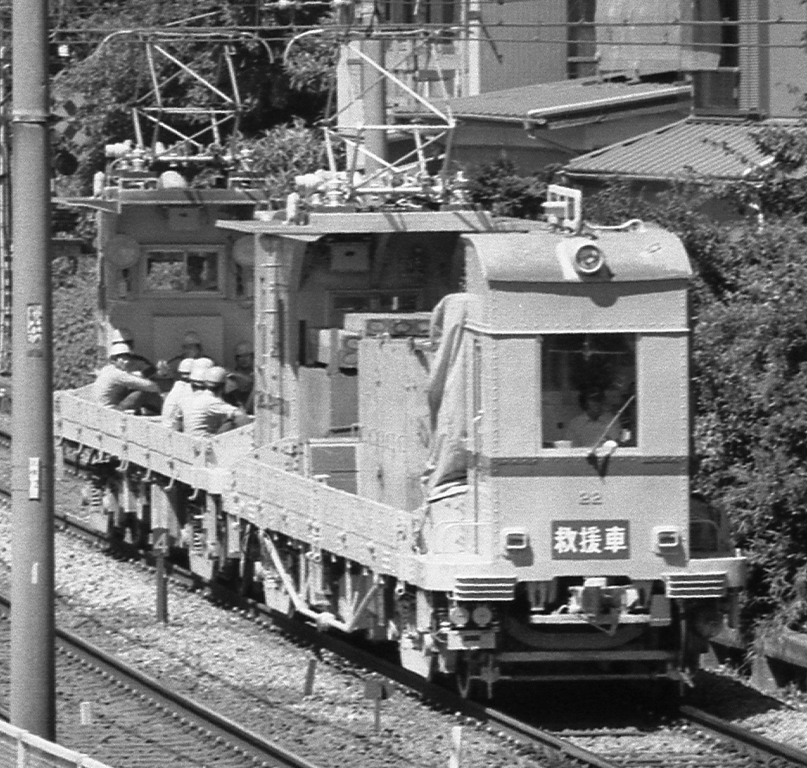 Keikyu Deto 21 running toward Kurihama Depot for derailment recovery training